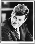 Congressional Portrait Collection (Library of Congress).